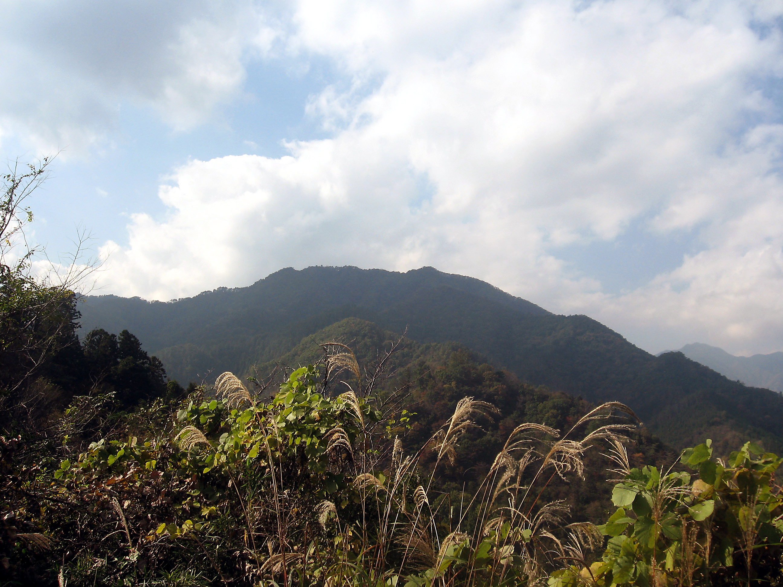 Mount Takagawayama